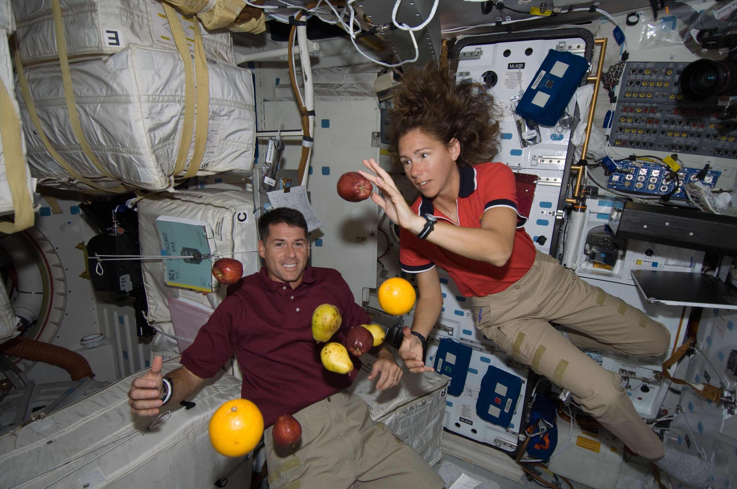 Astronauts Shane Kimbrough and Sandra Magnus, both STS-126 mission specialists, are pictured with fresh fruit floating freely on the middeck of Space Shuttle Endeavour during flight day three activities.